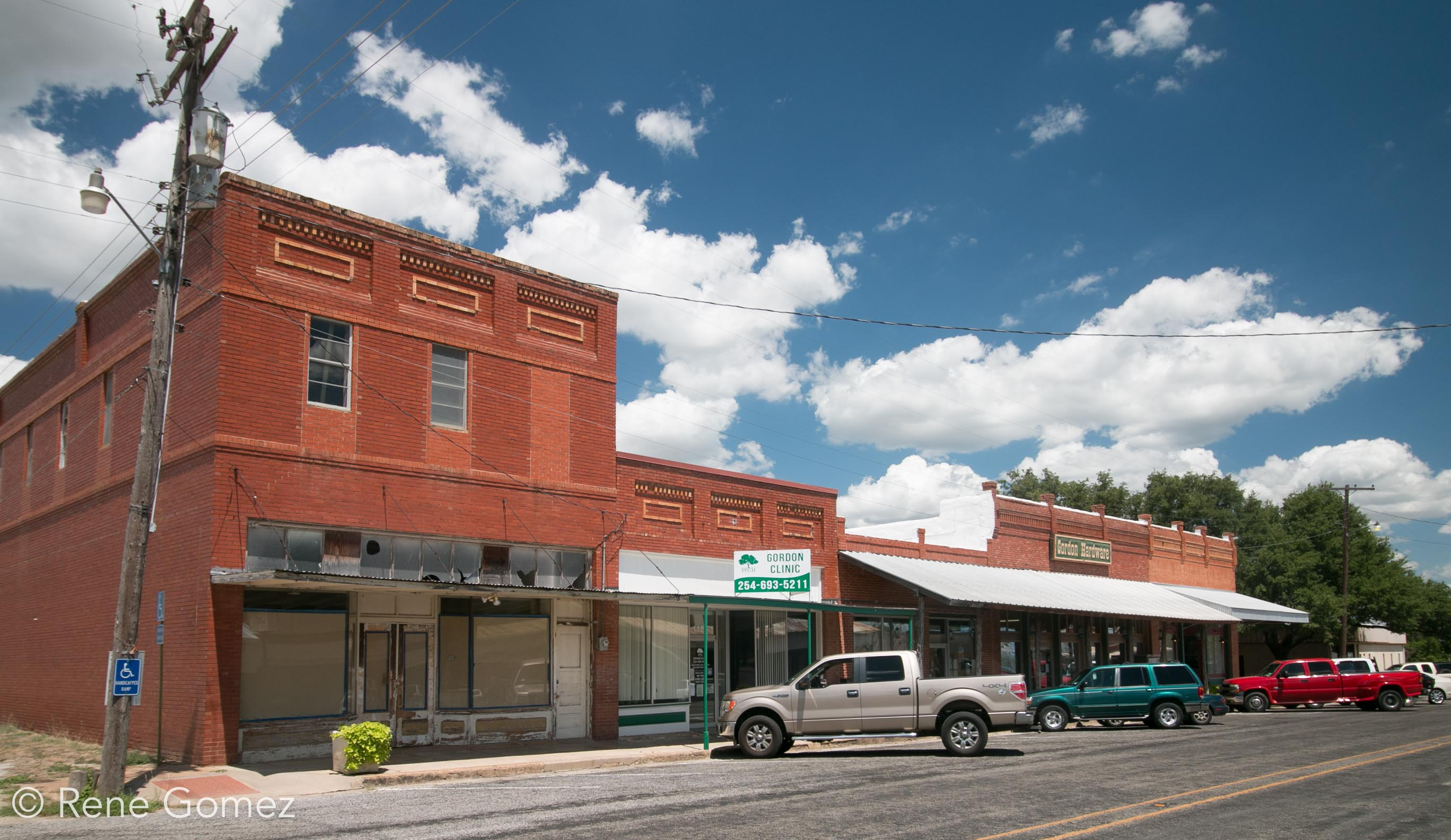 The town of Gordon, Texas